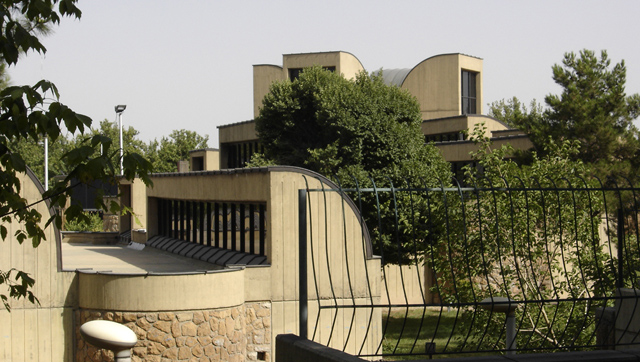 Museum of Contemporary arts, Tehran, Iran. Sony 5.1 MegaPixel camera was used.